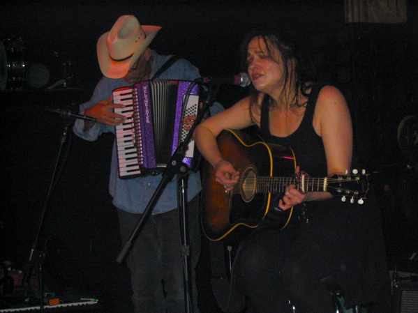 Julie Miller - Live in Concert (by Scott Dudelson)